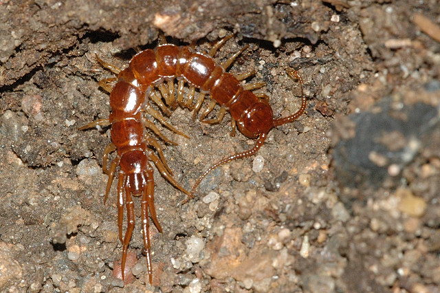 Picture taken in Commanster, Belgian High Ardennes . Species: Lithobius forficatus